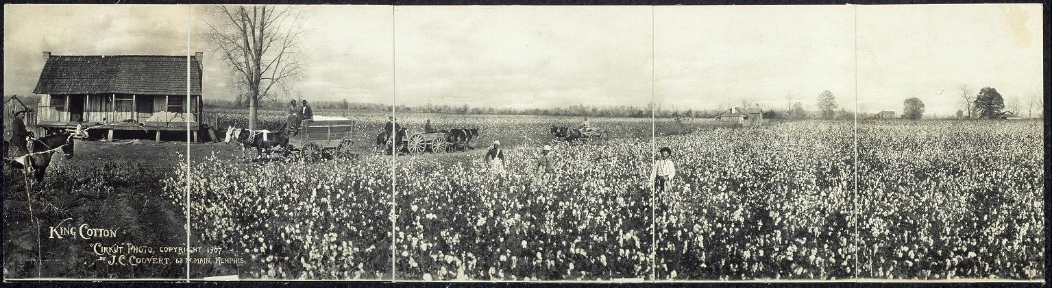 Original panoramic photograph entitled, "King Cotton", Library of Congress Item Title King Cotton. Created/Published c1907. Notes Copyright deposit; J. C. Coovert; December 16, 1907. Printed on image: "'Cirkut' Photo, copyright 1907 by J.C. Coovert, 63 N. Main, Memphis."